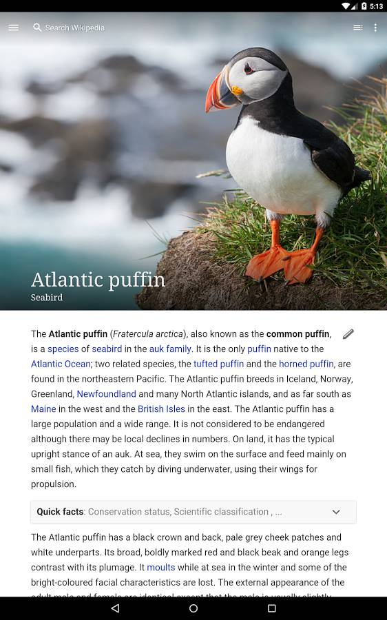 Wikipedia Mobile Beta on android